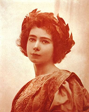 Olga de Meyer